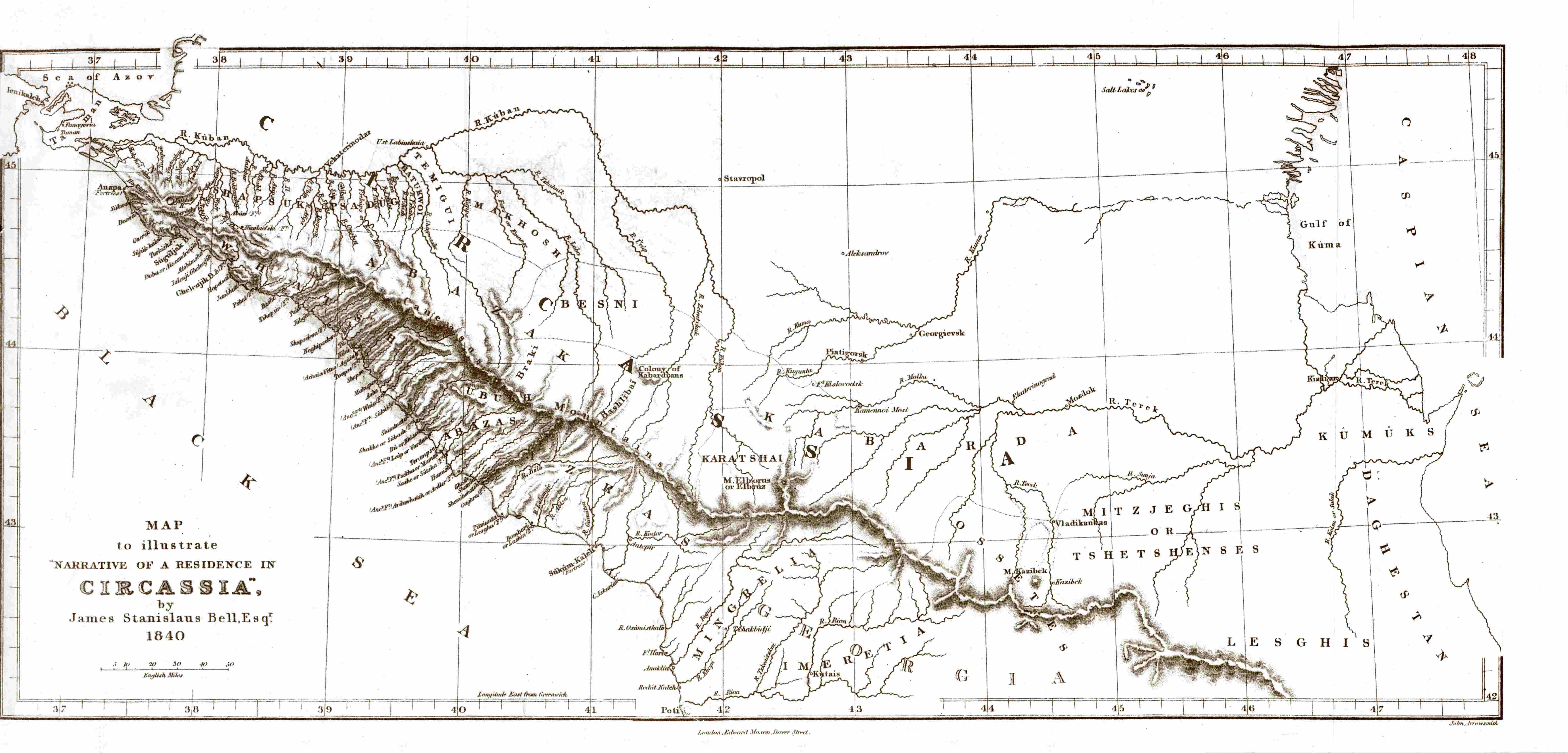 Map of Circassia, made in 1840 during the Russian-Circassian War, PD due to author's death over 100 years ago. Found here, lon. 36.5° - 48° E, lat. 42° - 45.5° N